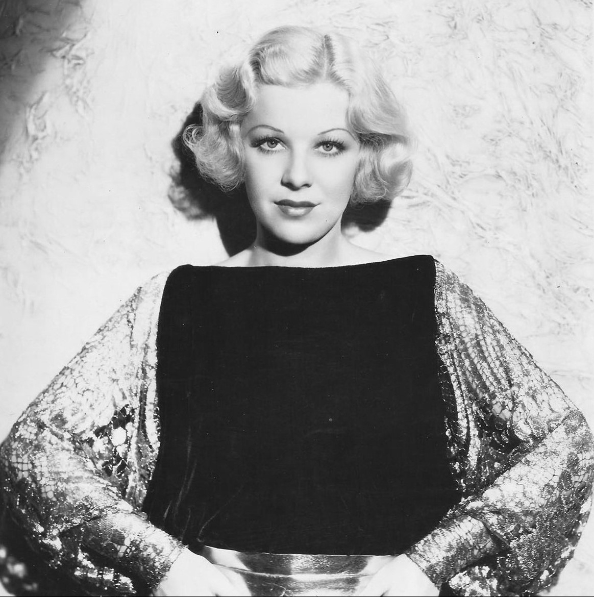 A cropped photo of Glenda Farrell in an original vintage photo of the 1934 film I've Got Your Number.